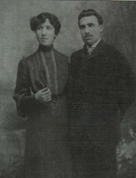 Stamen Panchev and his wife Rayna